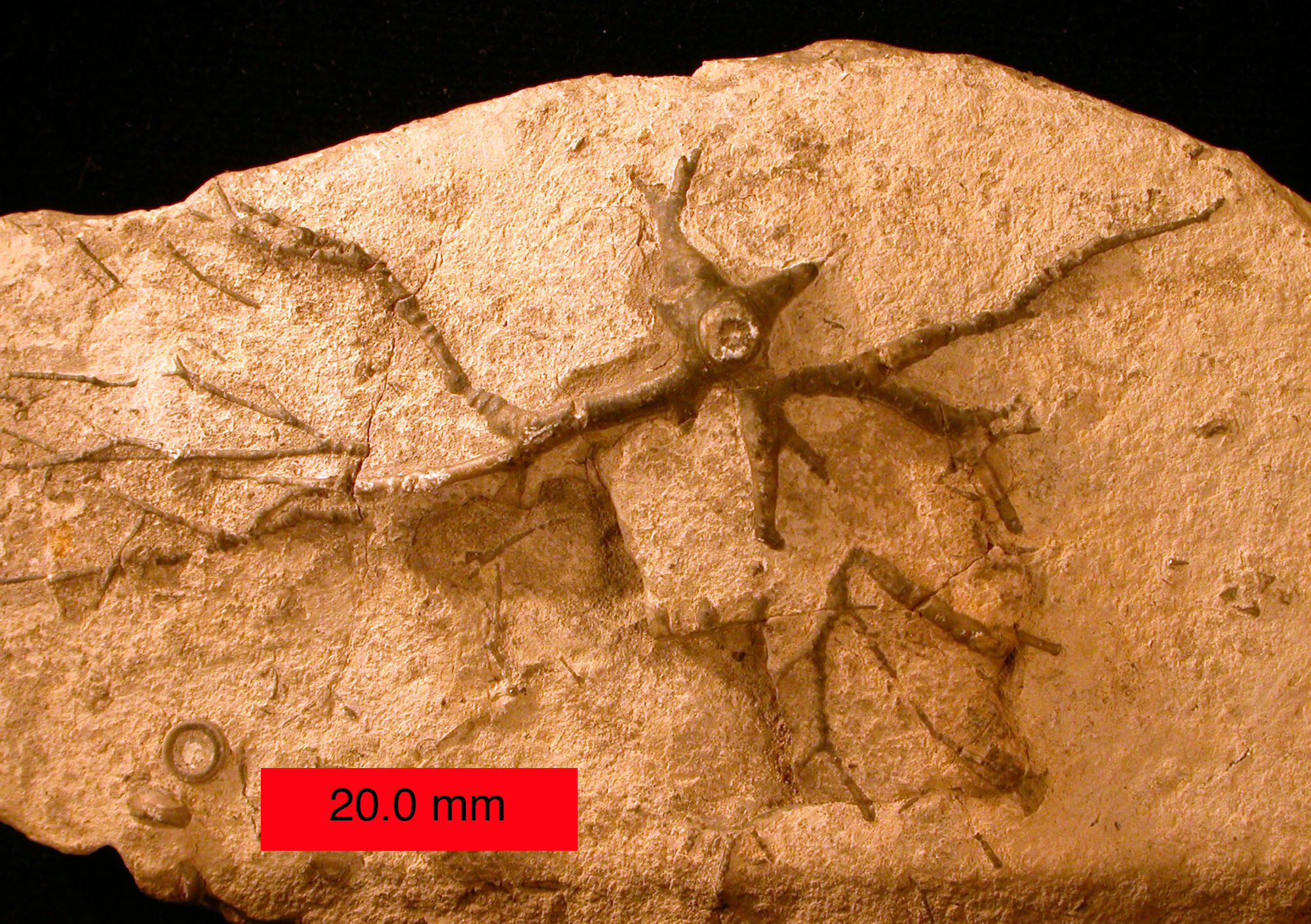 Crinoid root-like holdfast (Silurian, Ohio).